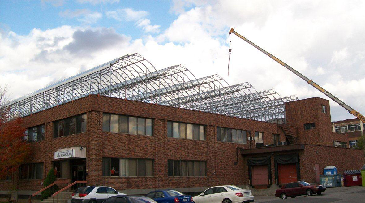 First Lufa Farms greenhouse construction, the world’s first commercial rooftop greenhouses. Montreal neighborhood of Ahuntsic-Cartierville.